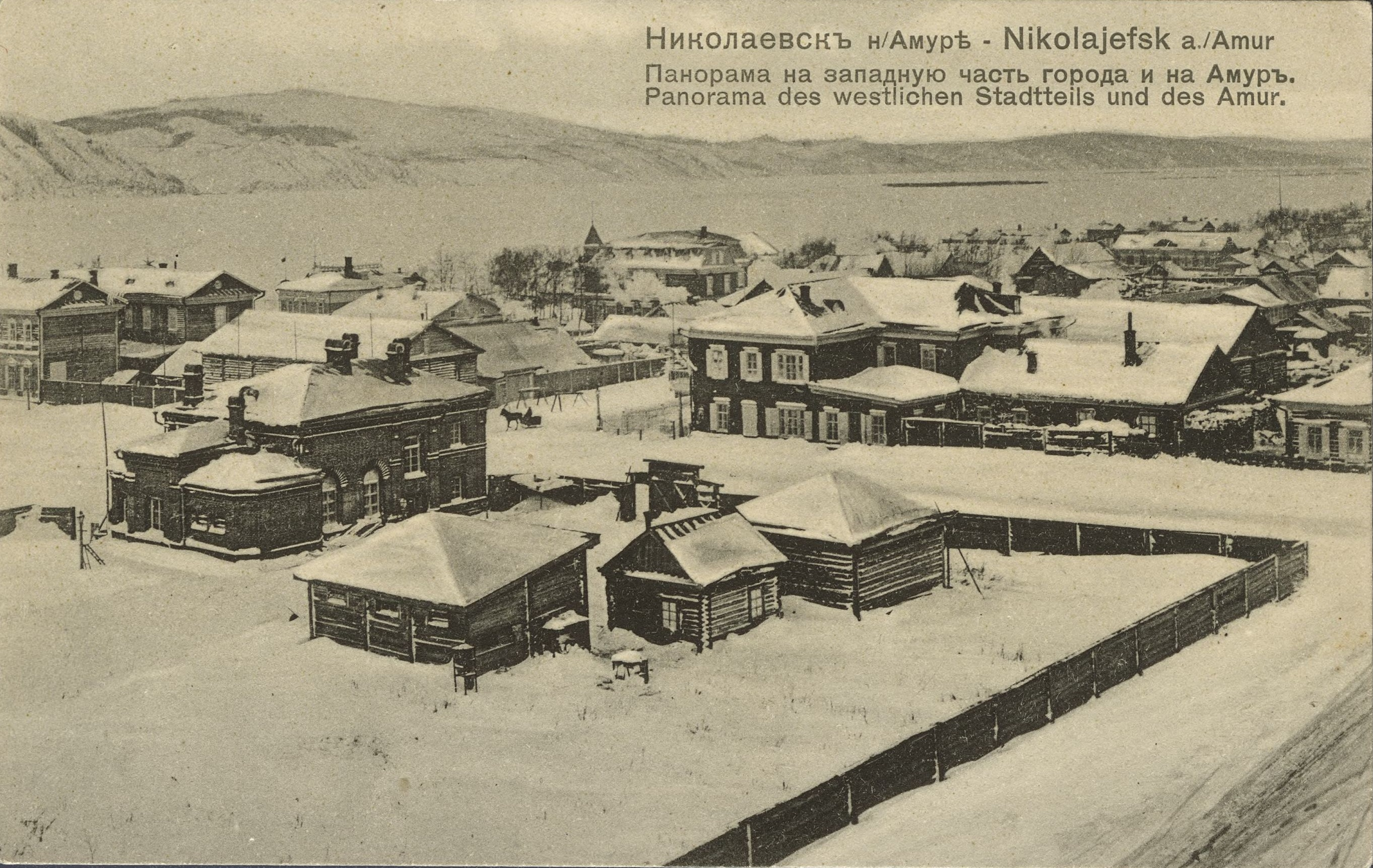 The town of Nikolaevsk-on-Amur in the Russian Far East around the turn of the 20th century. "Panoramic view of the western part of town and the Amur river." (in Russian and German)